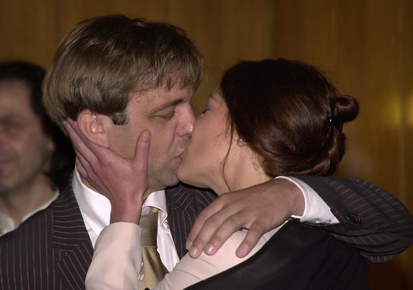 Kiss between two grooms